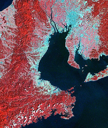 This is a landsat image around Ise bay, Japan.